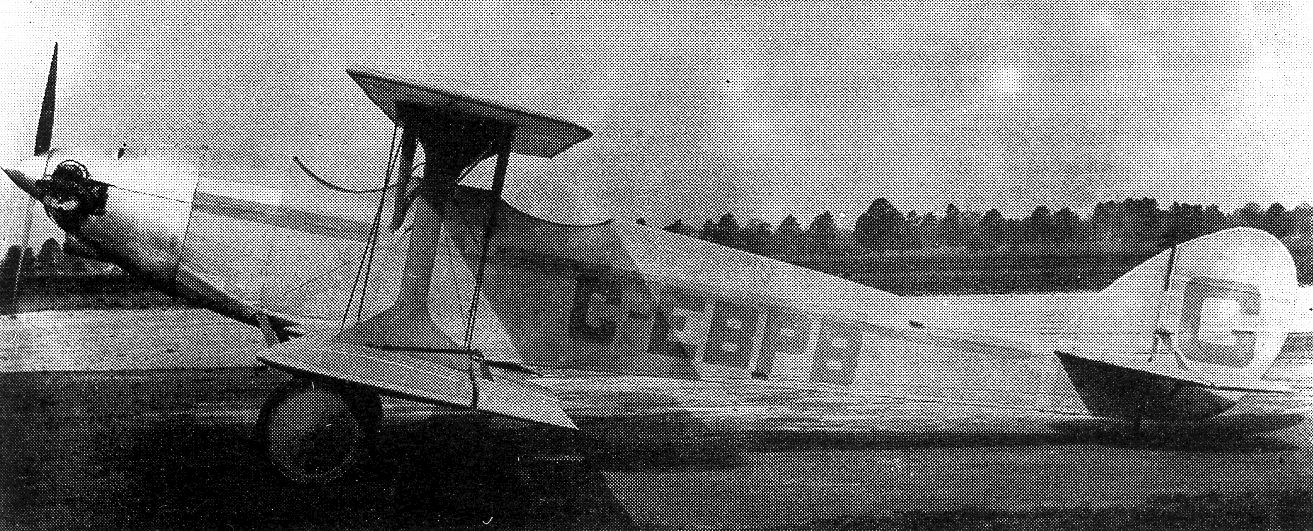 The first Cranwell C.L.A.4A, mid 1926.